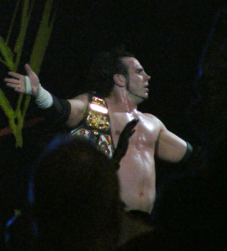 Matt Hardy @ Adelaide, South Australia 'Smackdown/ECW' house show on the 14th of June '08 with the US Championship